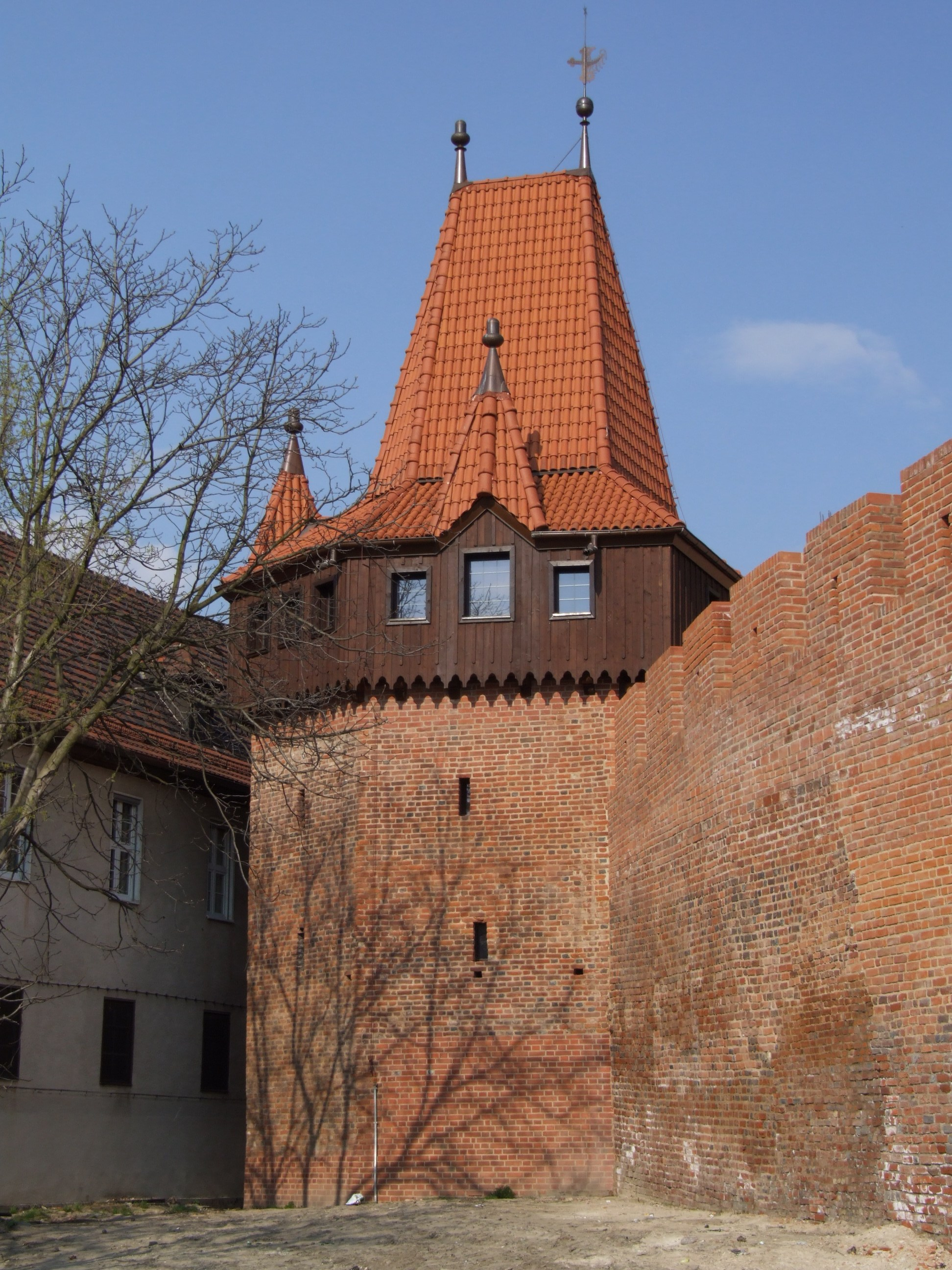 Wall tower in Opole (Oppeln), Upper Silesia